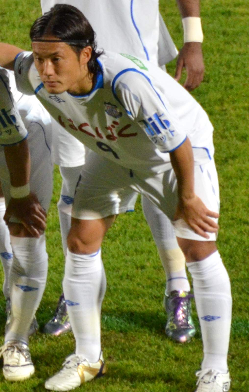 Yohei Onishi cropped from DSC_1758